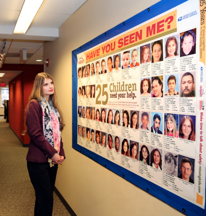 Alicia Kozakiewicz at the National Center for Missing and Exploited Children headquarters in Alexandria, VA (national 24-hour toll-free missing children's hotline 1-800-THE-LOST).